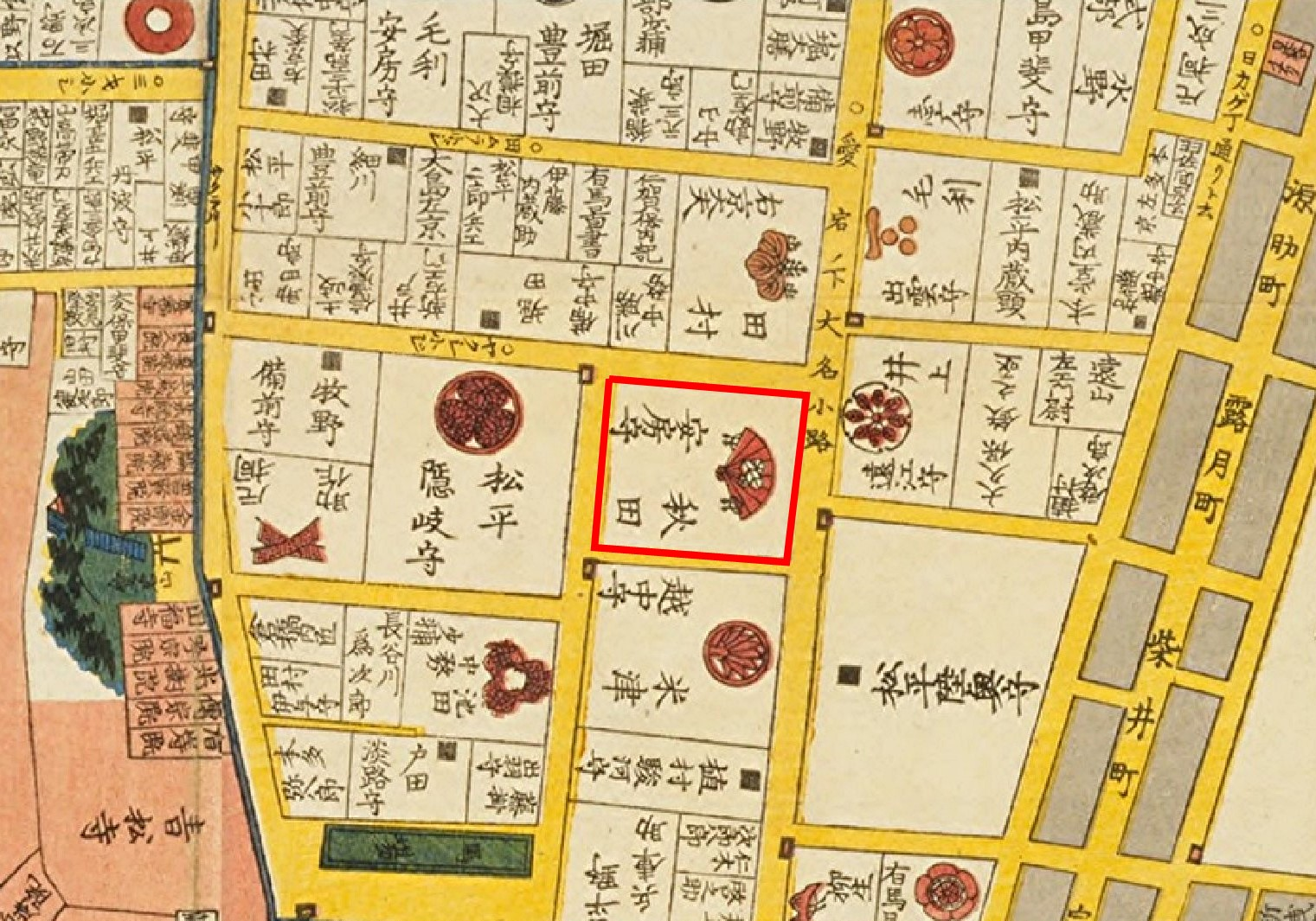 Residence of Akita clan at Edo